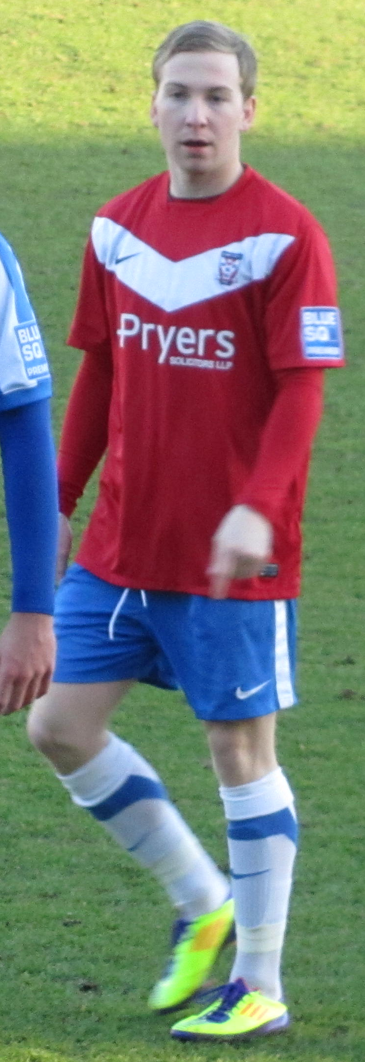 Ben Swallow